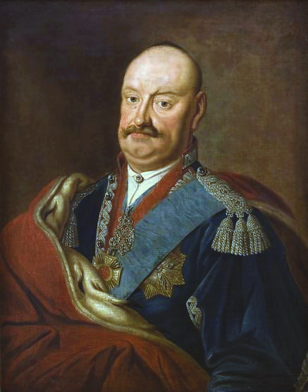 Portrait of Karol Stanisław Radziwiłł (1734–1790)